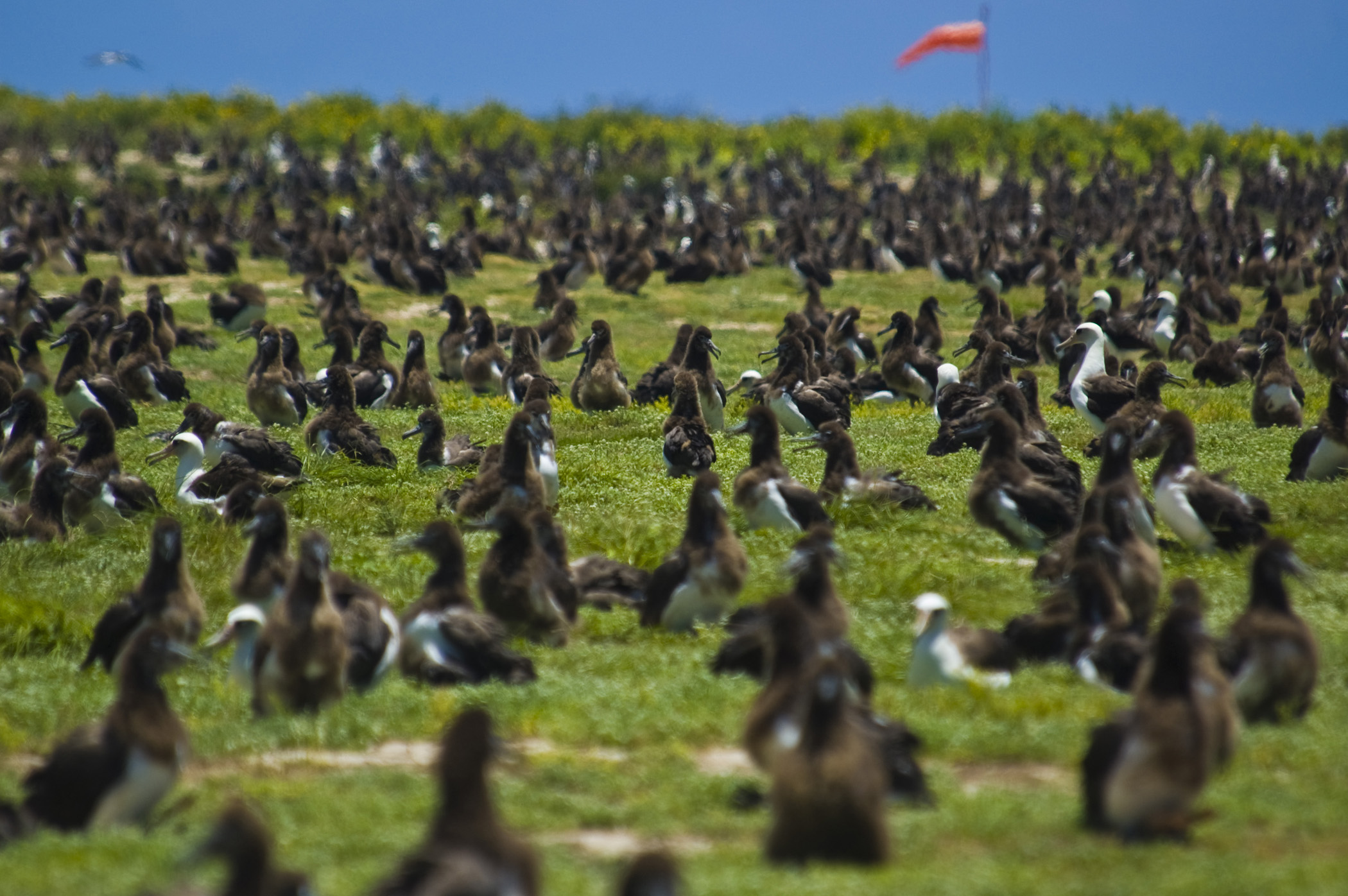 PEARL HARBOR (June 2, 2010) More than a million Laysan Albatrosses, also known as "gooney birds" overwhelmingly occupy the entire Midway atoll. (U.S. Navy photo by Mass Communication Specialist 2nd Class Mark Logico/Released)